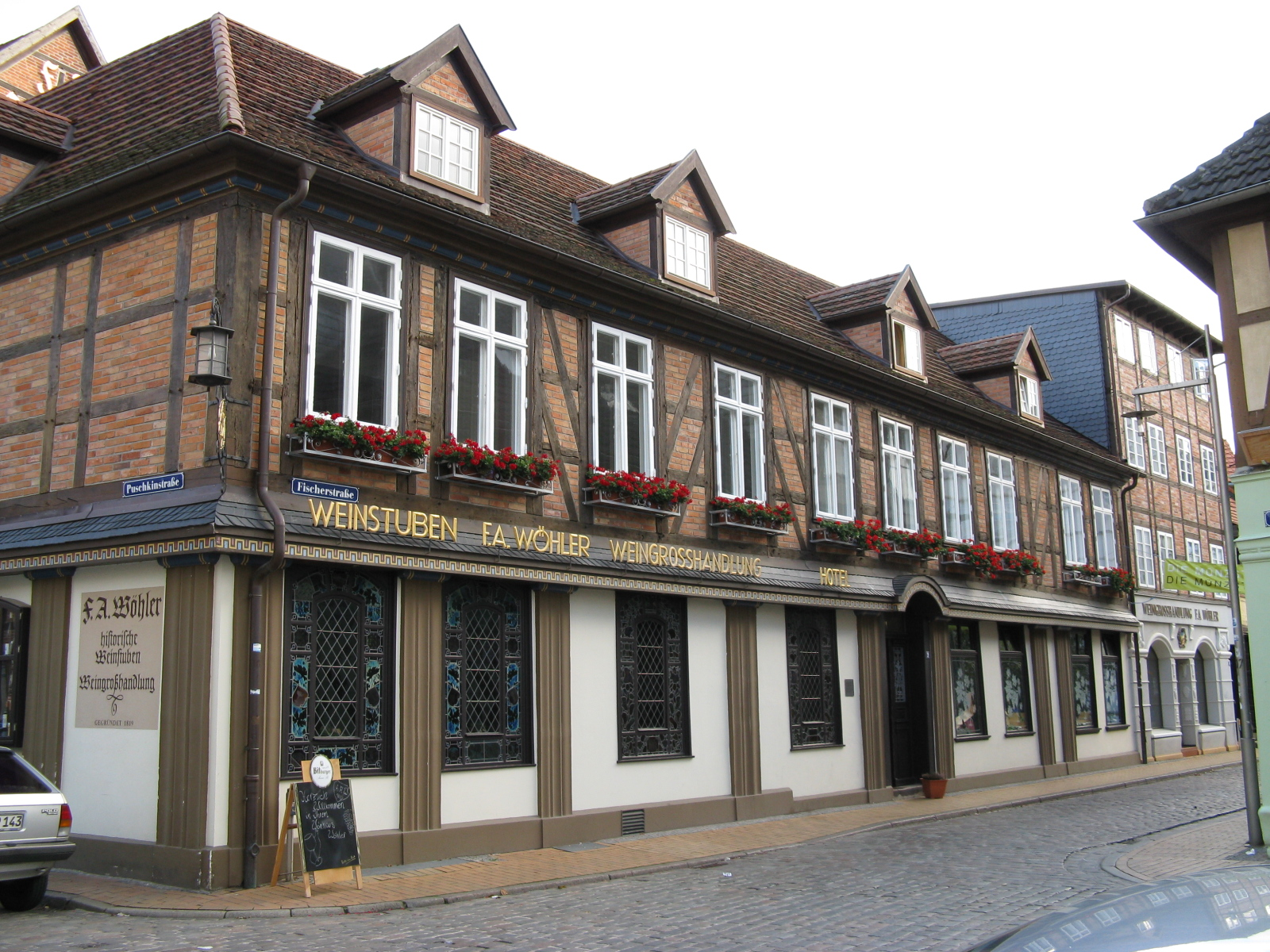 Timber framed house at corner Fischerstraße/Puschkinstraße in Schwerin, Mecklenburg-Vorpommern, Germany